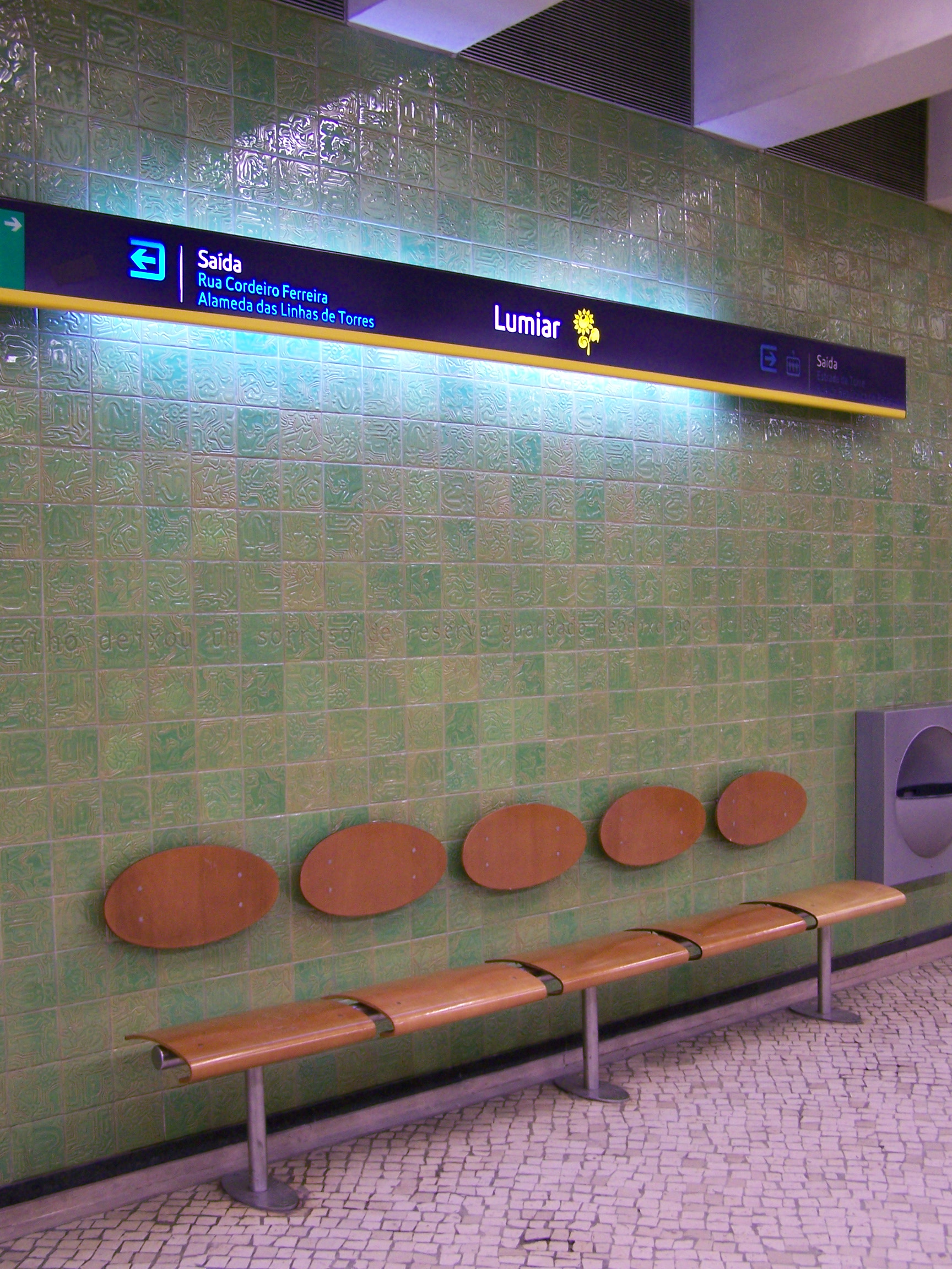 Bench at the Lisbon metro station Lumiar, yellow line.